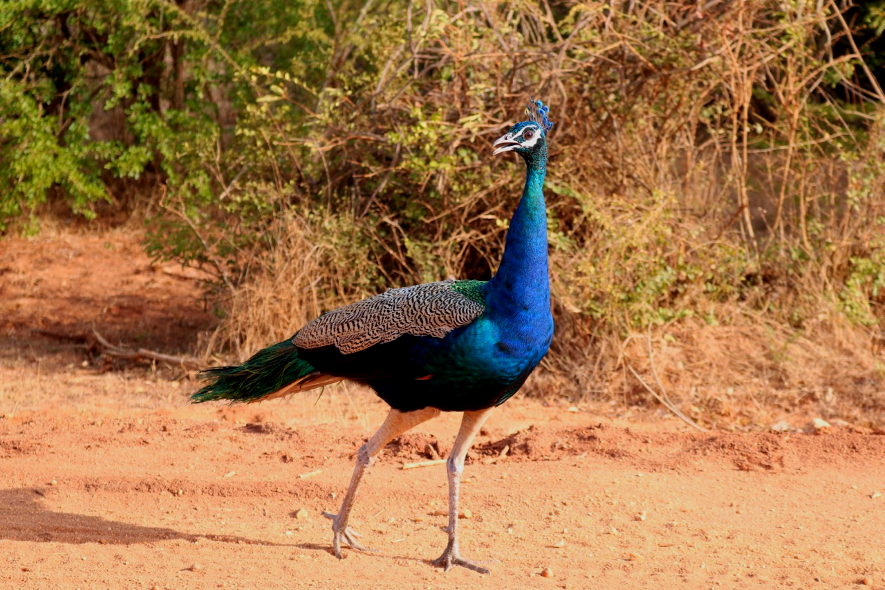 Peacock at Sithulpawwa, Sri Lanka.